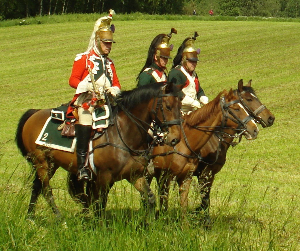 2nd Dragoons